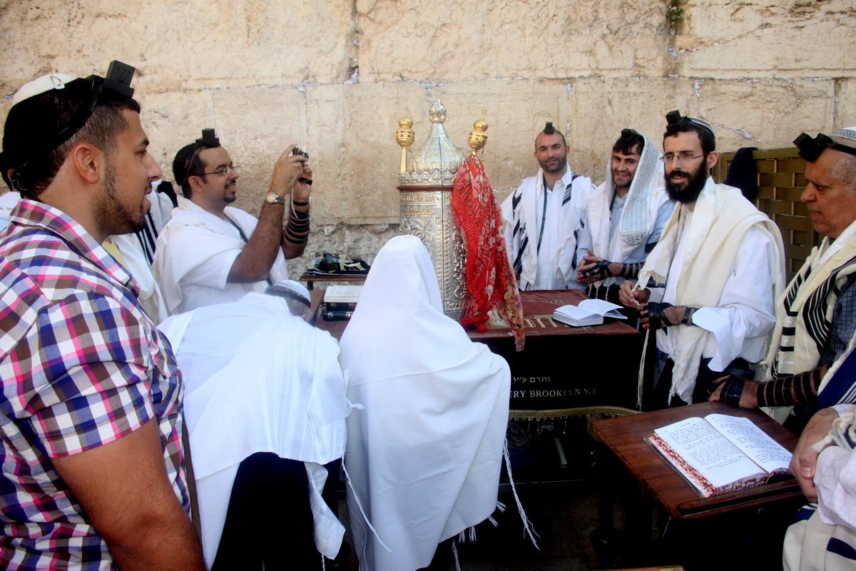 Jewish boy Gets the white coat during Bar Mitzvah and the older Jewish men look